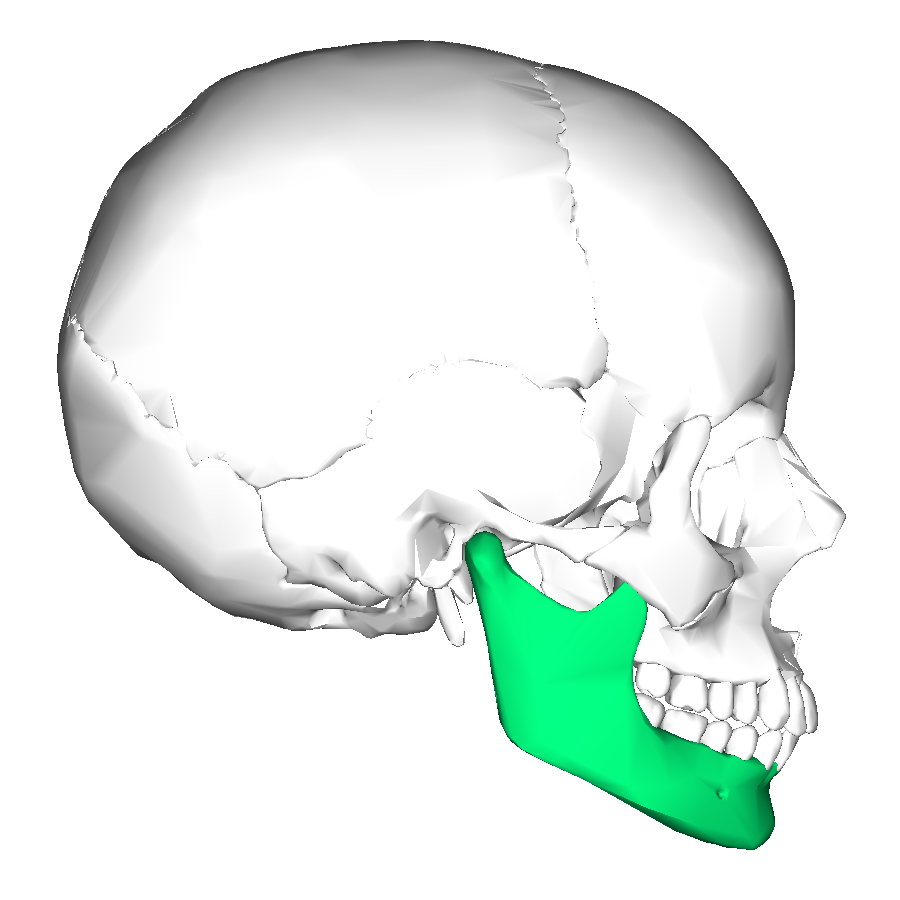 Mandible (shown in green).